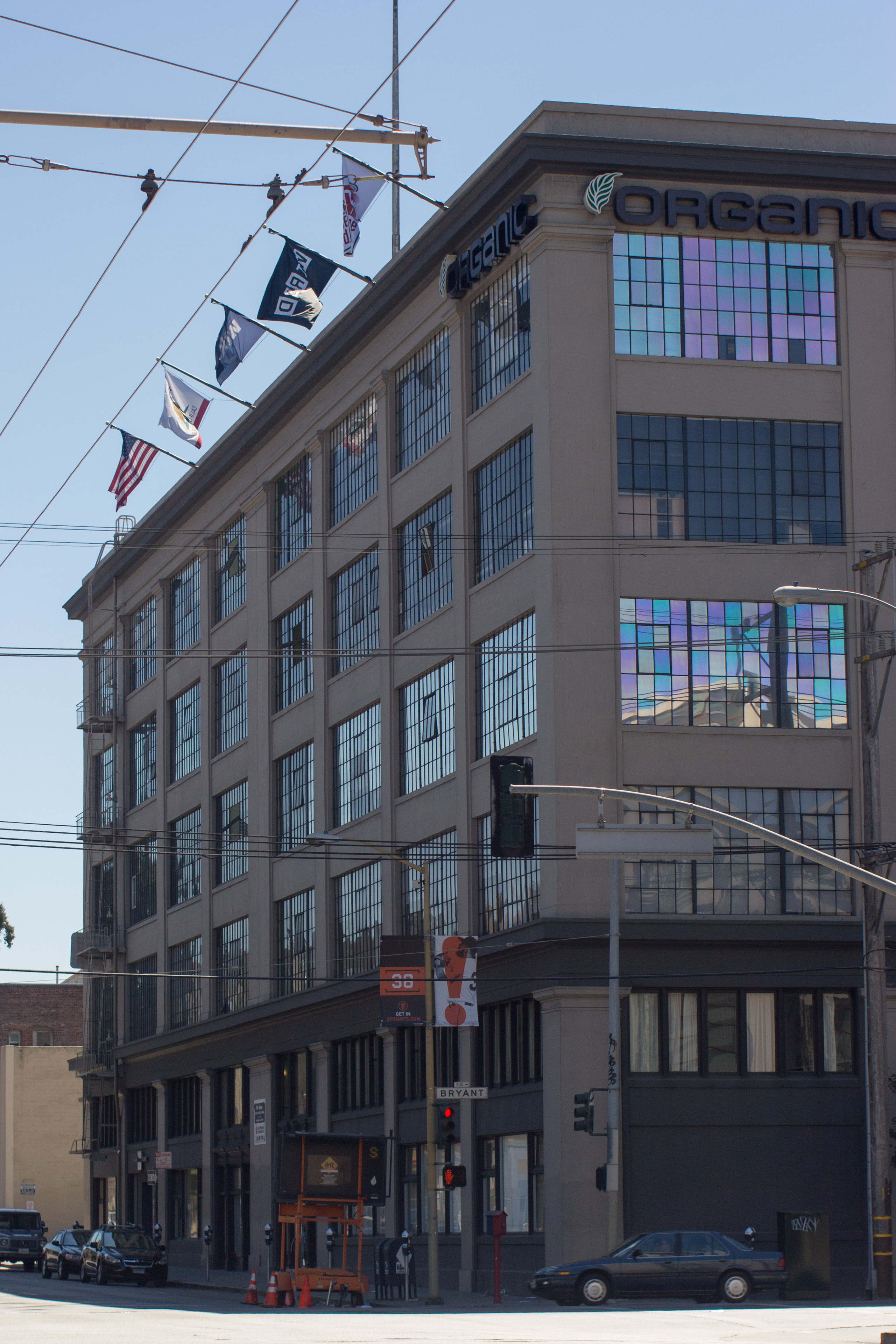 Wikia and Wired Building location, GPS: 37.780983, -122.395709